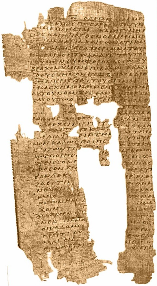 Papyrus 15 - Papyrus Oxyrhynchus 1008 - Cairo Egyptian Museum JE 47423 - First Epistle to the Corinthians 7:18–8:4